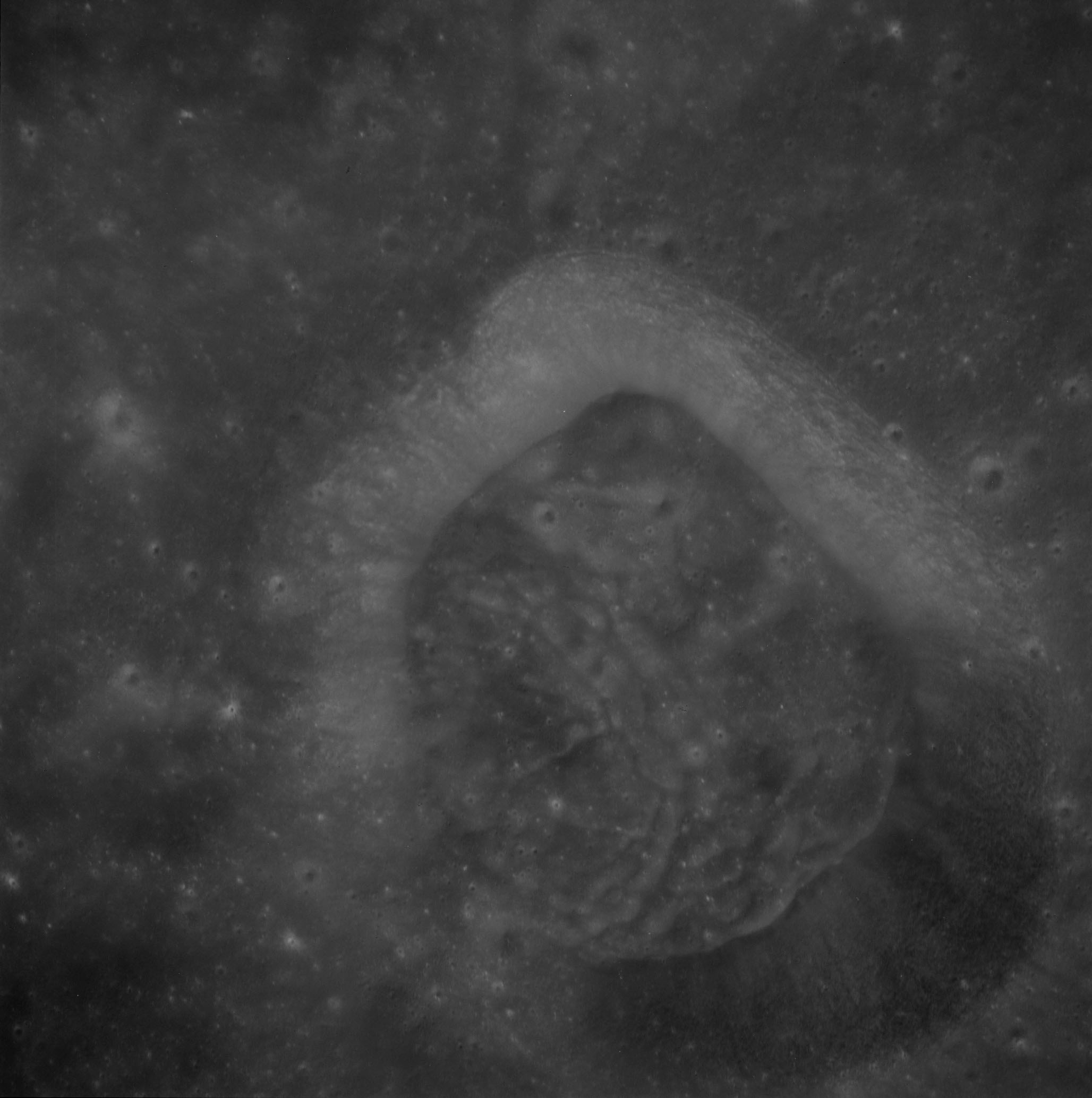 Mandel'shtam Q crater, southwest of Mandel'shtam, on the far side of the moon.